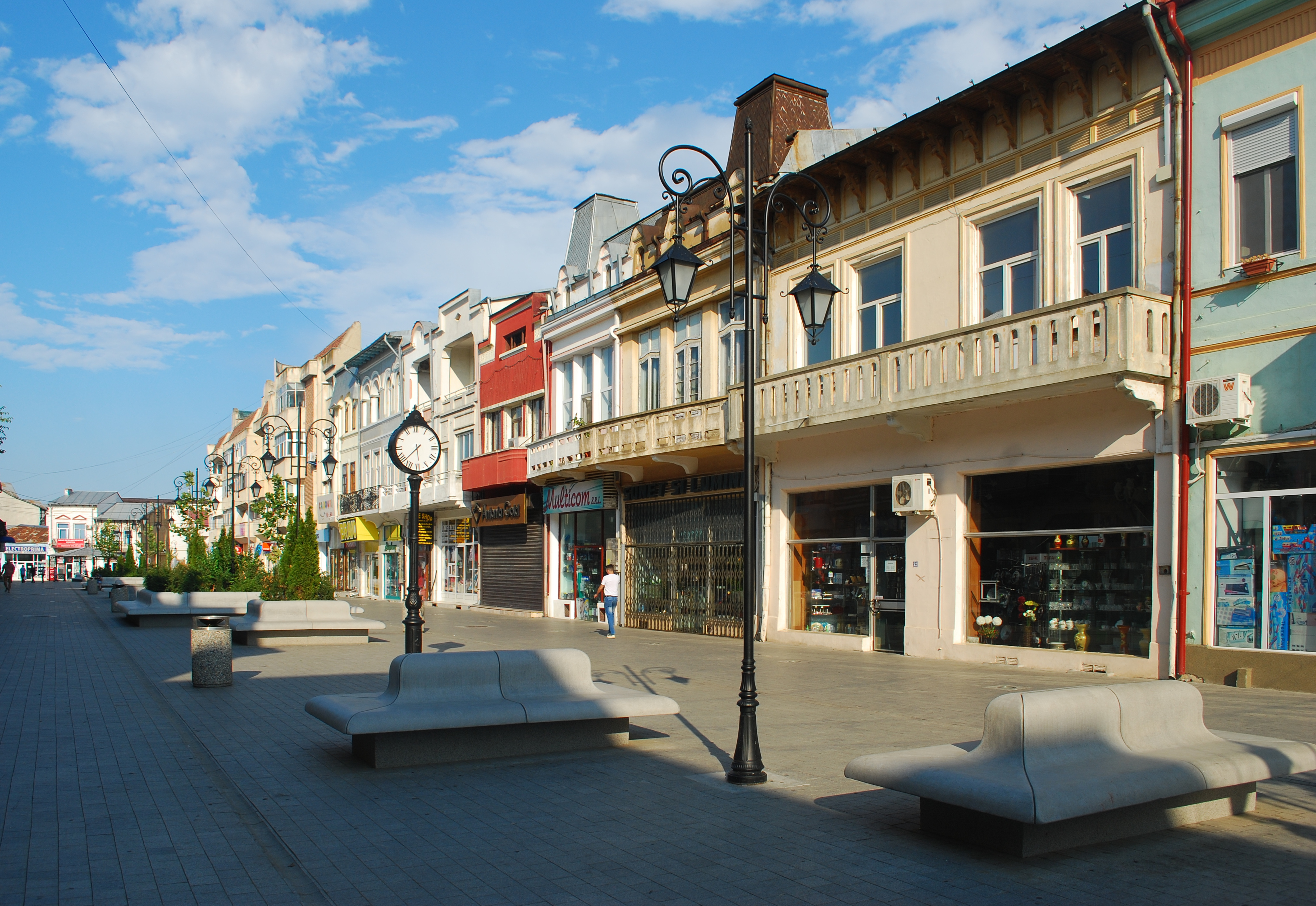 Cuza Vodă street in the historic center of Buzău, RomaniaRomână: Strada Cuza Vodă din centrul istoric al orașului Buzău, România